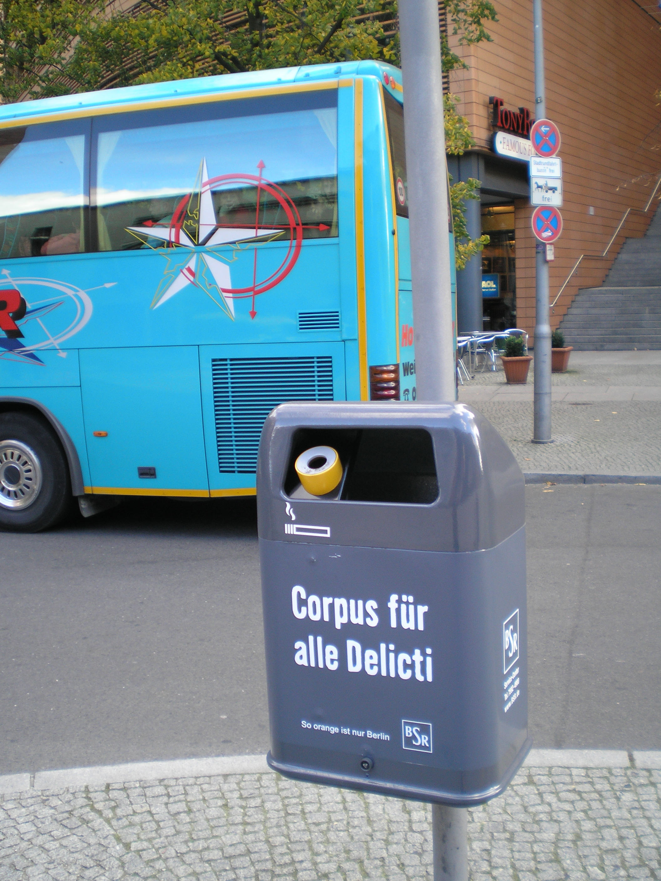 waste basket in Berlin with inscription corpus für alle delicti (für alle = for all)